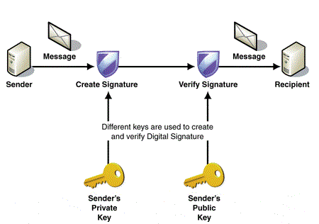 Nenshkrimi digjital